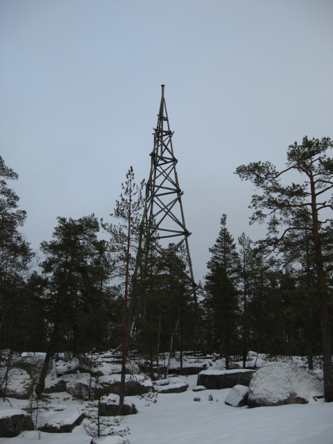 A triangulation station on the top of Sikavuori hill, Jalasjärvi, Finland.